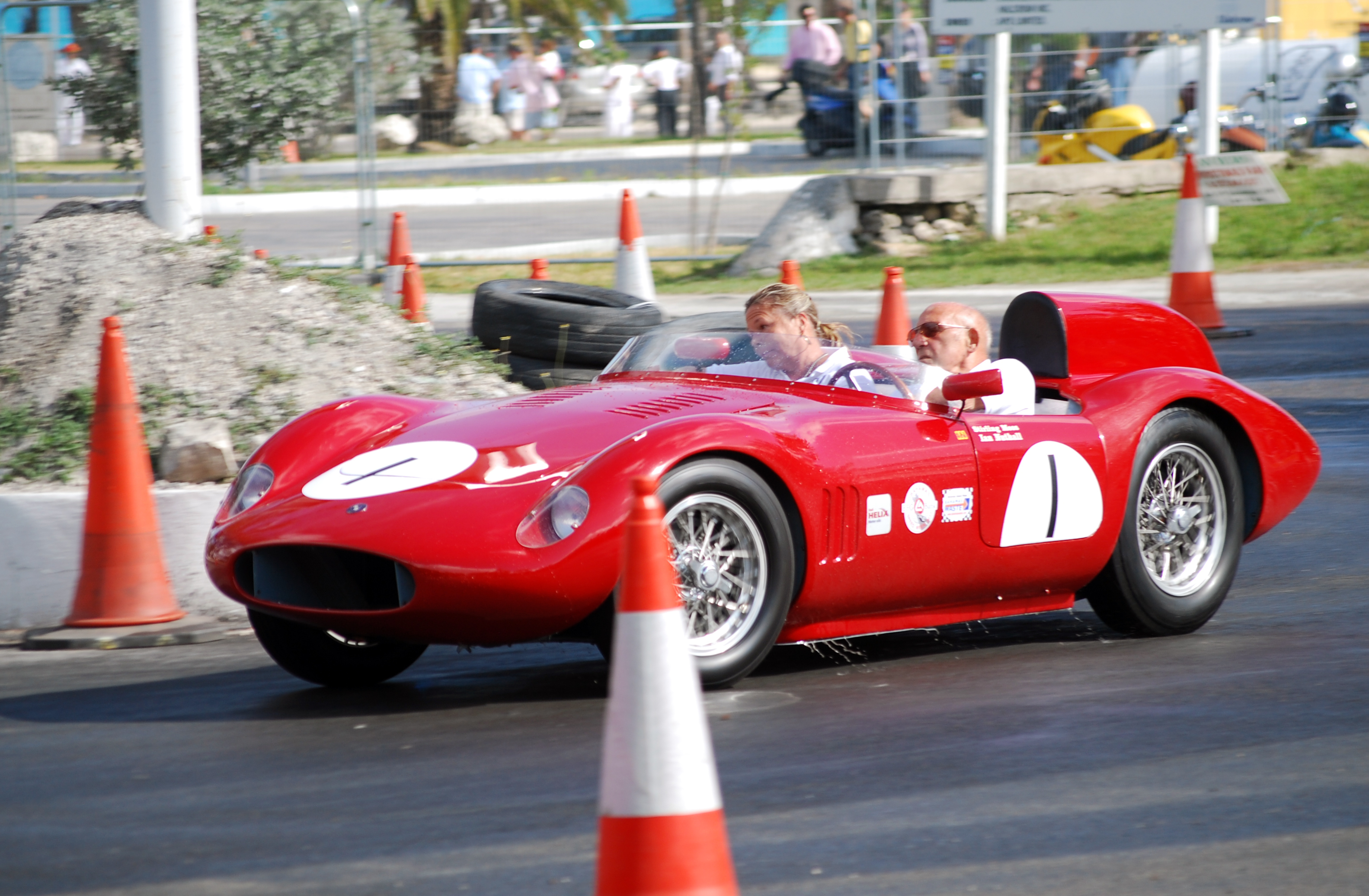 Stirling Moss in his OSCA FS 372 (chassis no 1191 FS) at the 2011 Bahamas Speed Week Revival.